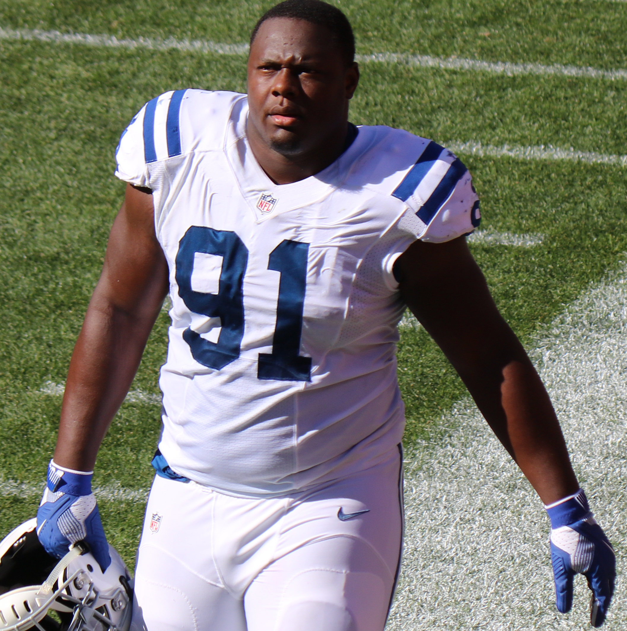 Hassan Ridgeway, a player on the National Football League.